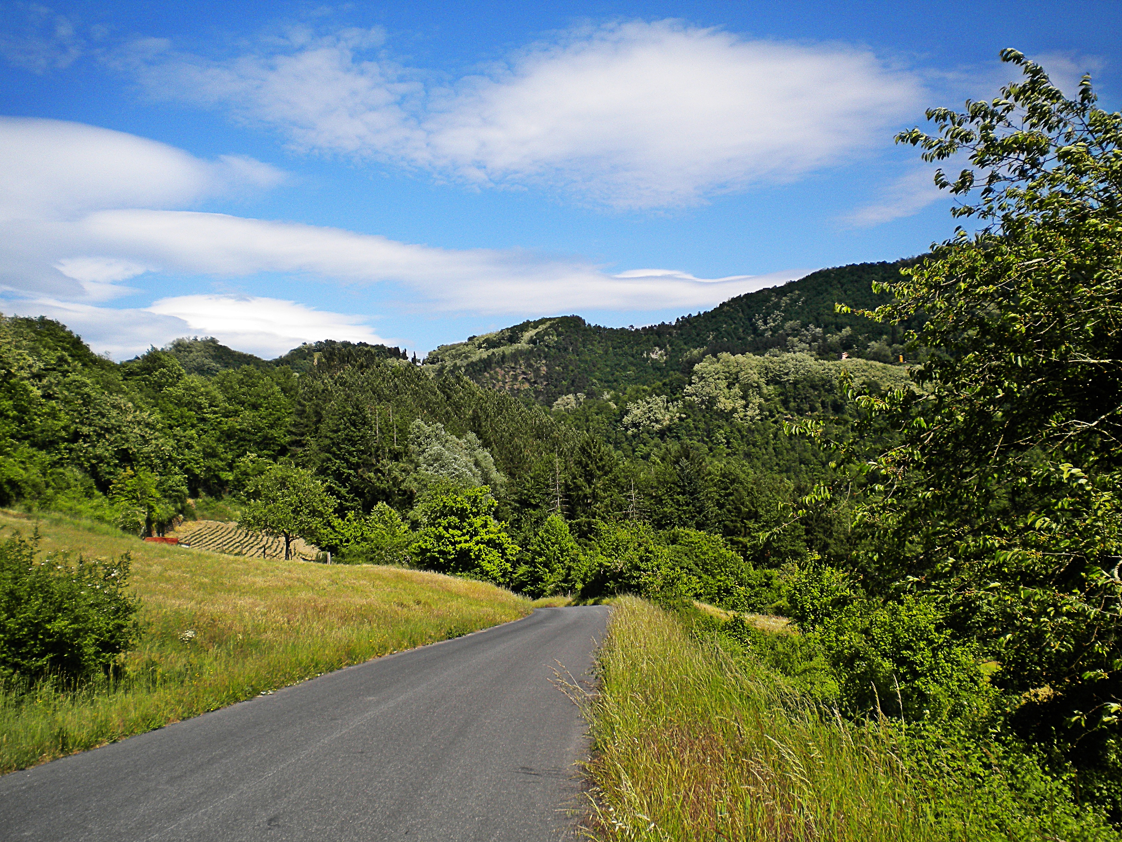 panorama